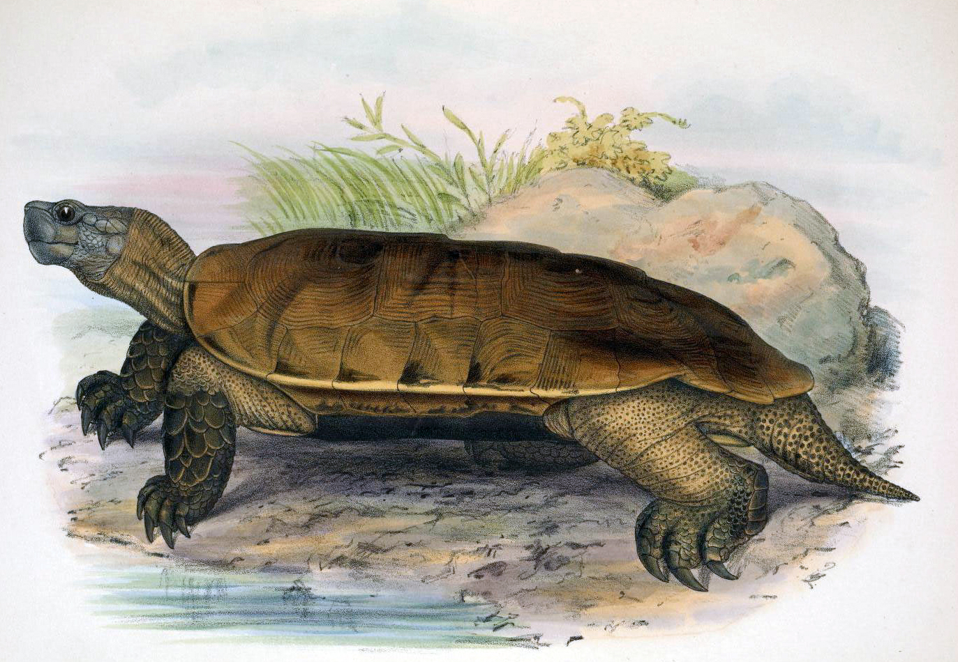 Arakan forest turtle (Heosemys depressa, formerly Geomyda).